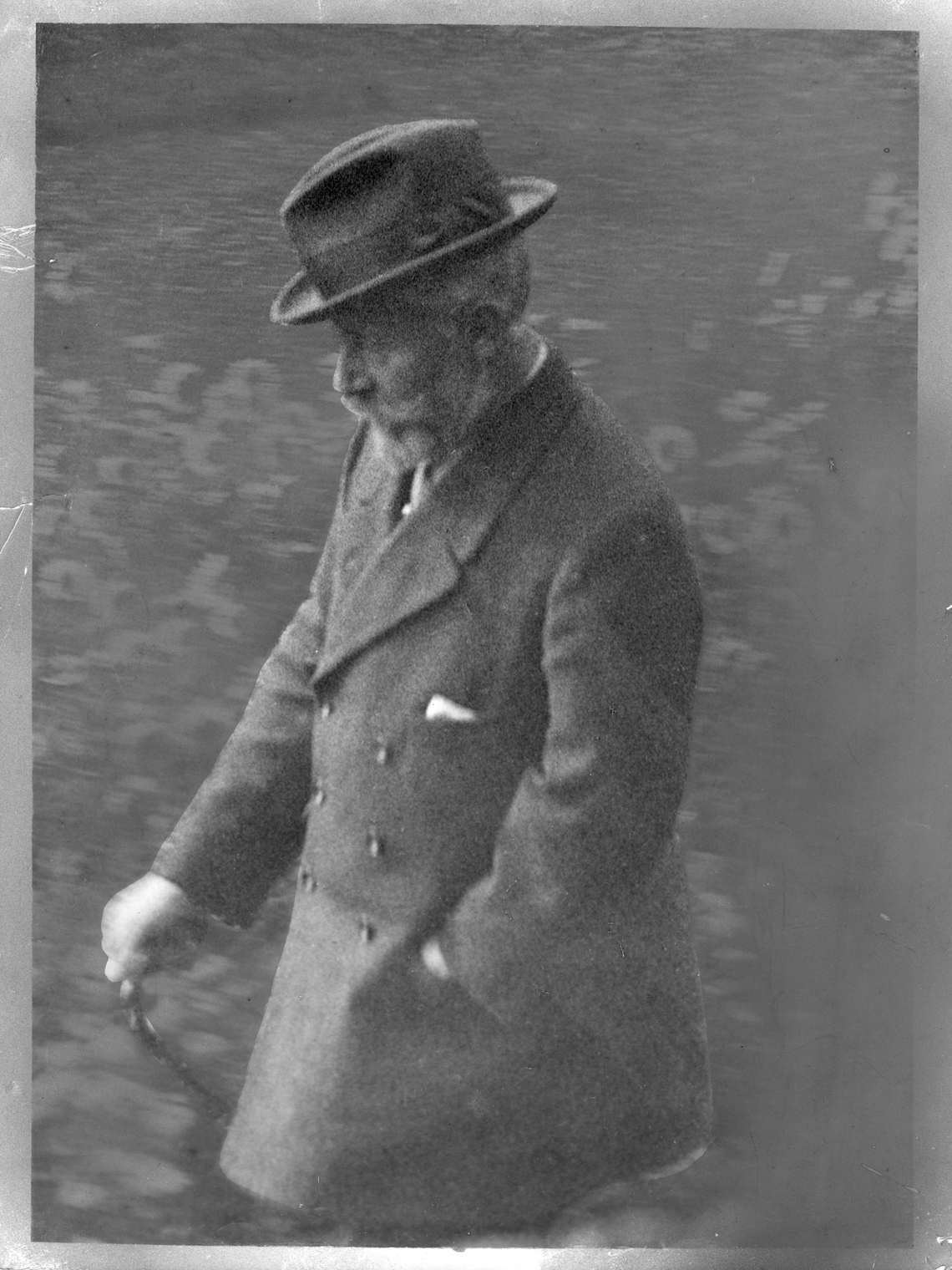 5011d Keizer Wilhelm over de muur van kasteel Amerongen gefotografeerd. 1919. "Vorstenhuizen, keizerrijk Duitsland. Keizer Wilhelm II in ballingschap wandelt in de tuin van Kasteel Amerongen. Deze opname is vanuit een hooiwagen met verborgen camera over de muur van het kasteel gefotografeerd in 1919 door Leven-fotograaf Ruben Velleman. Dit is een in 1922 in Het Leven gepubliceerde uitvergroting van de oorspronkelijke opname uit 1919 die niet bewaard is. De retouche-verf is destijds aangebracht om de figuur van de ex-keizer beter te laten uitkomen." (Nationaal Archief) Over het nemen van de foto: 'Hoe we de politie verschalkten en den ex-keizer kiekten', Het Leven, 14 jaargang, no. 41, dinsdag 14 oktober 1919.